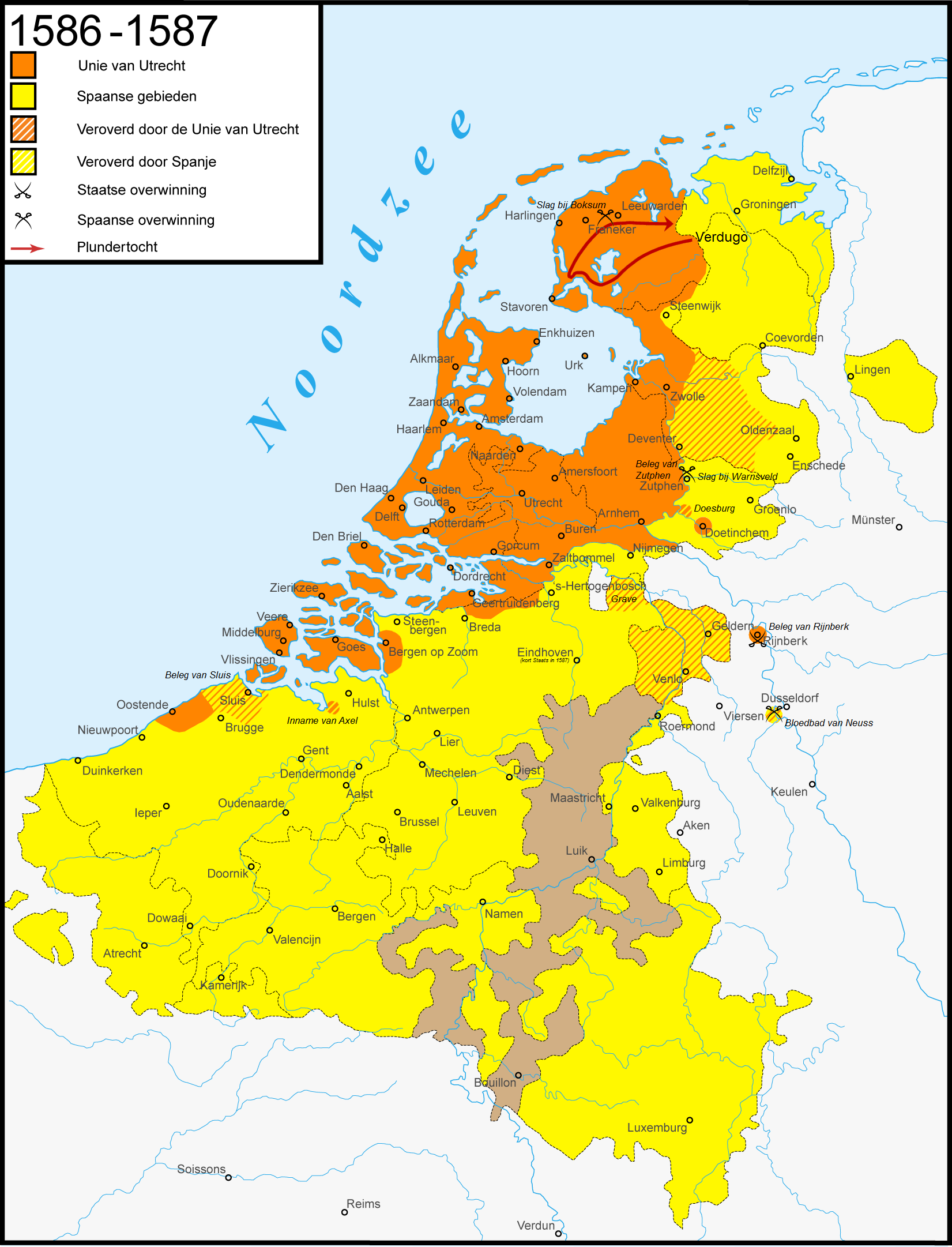 War progression in het Eighty Years' War: 1586-1587. Dutch version